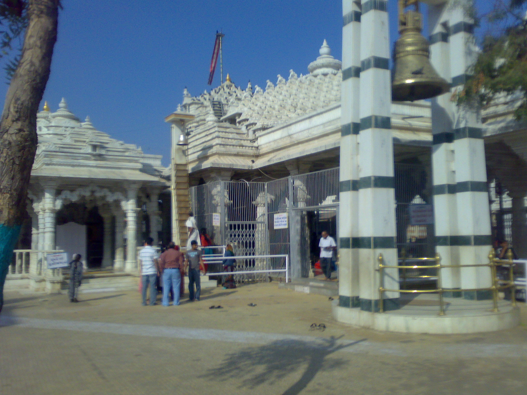 My own clicked photograph